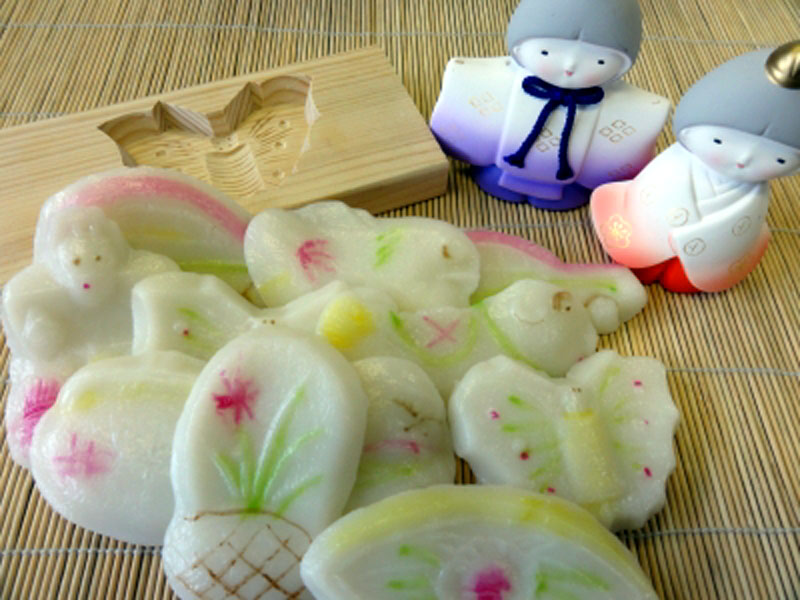 Hina matsuri rice cake,Okoshimono,Toyota-city,Aichi,Japan